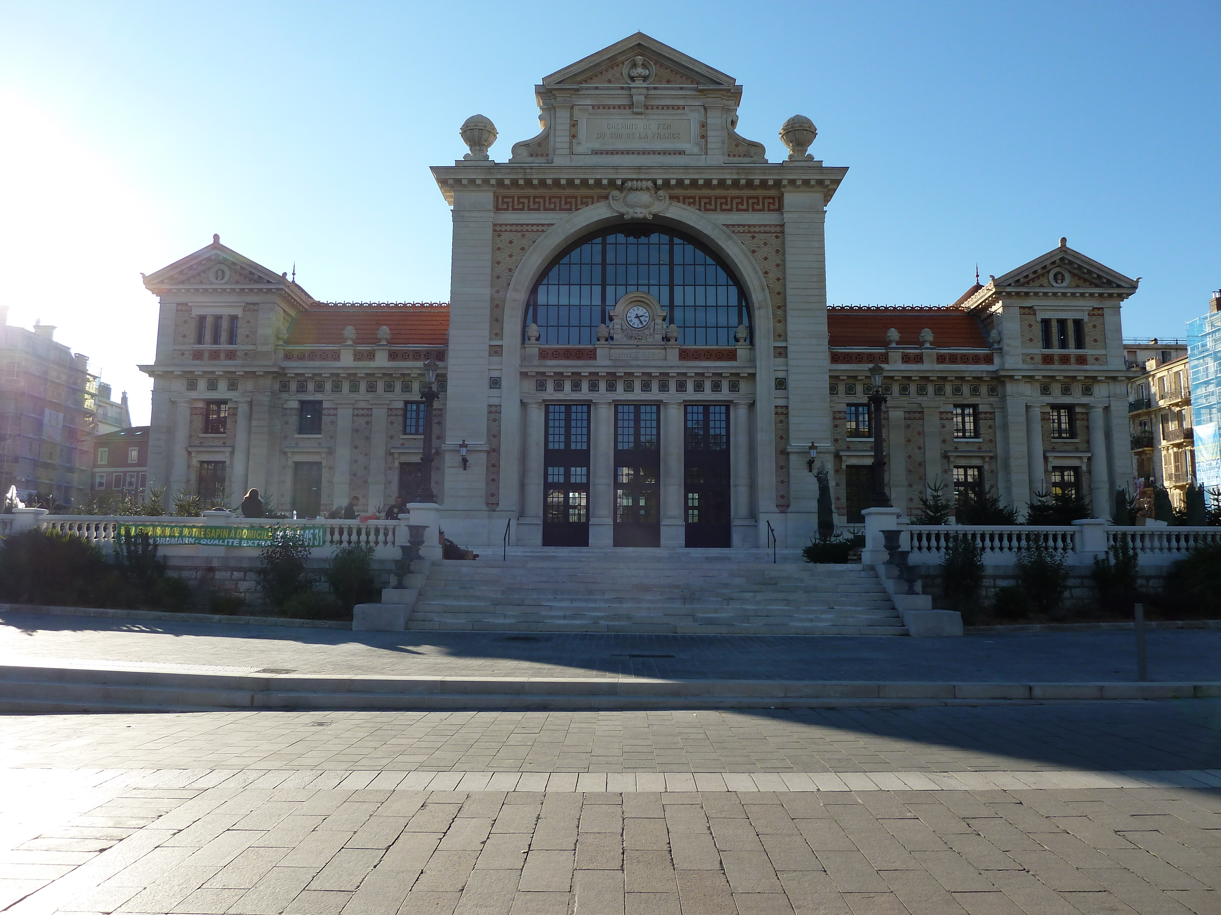 Gare du Sud